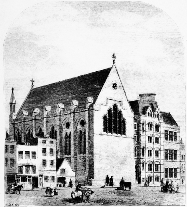 St. Mary's Church, clergy house and school. Crown Street (modern Charing Cross), London 1869–74.